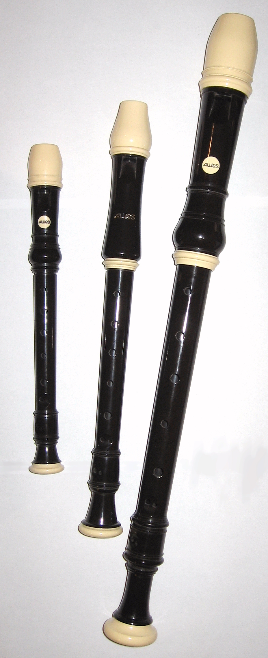 Recorders: Alto (biggest), soprano (common) and sopranino (highest).